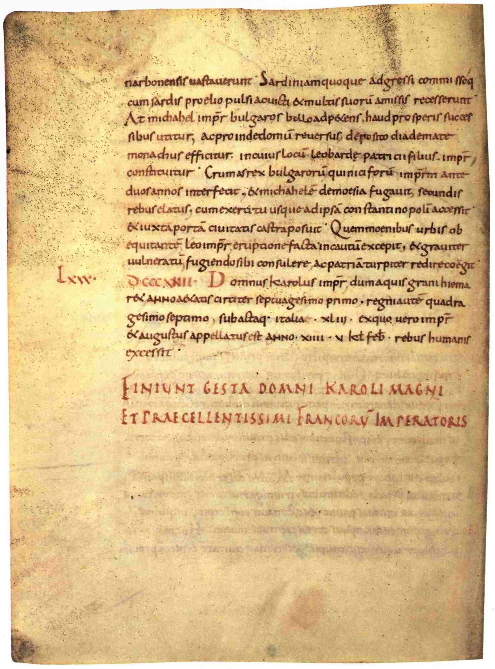 The Royal Frankish Annals, entry for the year 814 (death of Charlemagne). Vienna, Österreichische Nationalbibliothek, Cod. 473, fol. 143v.